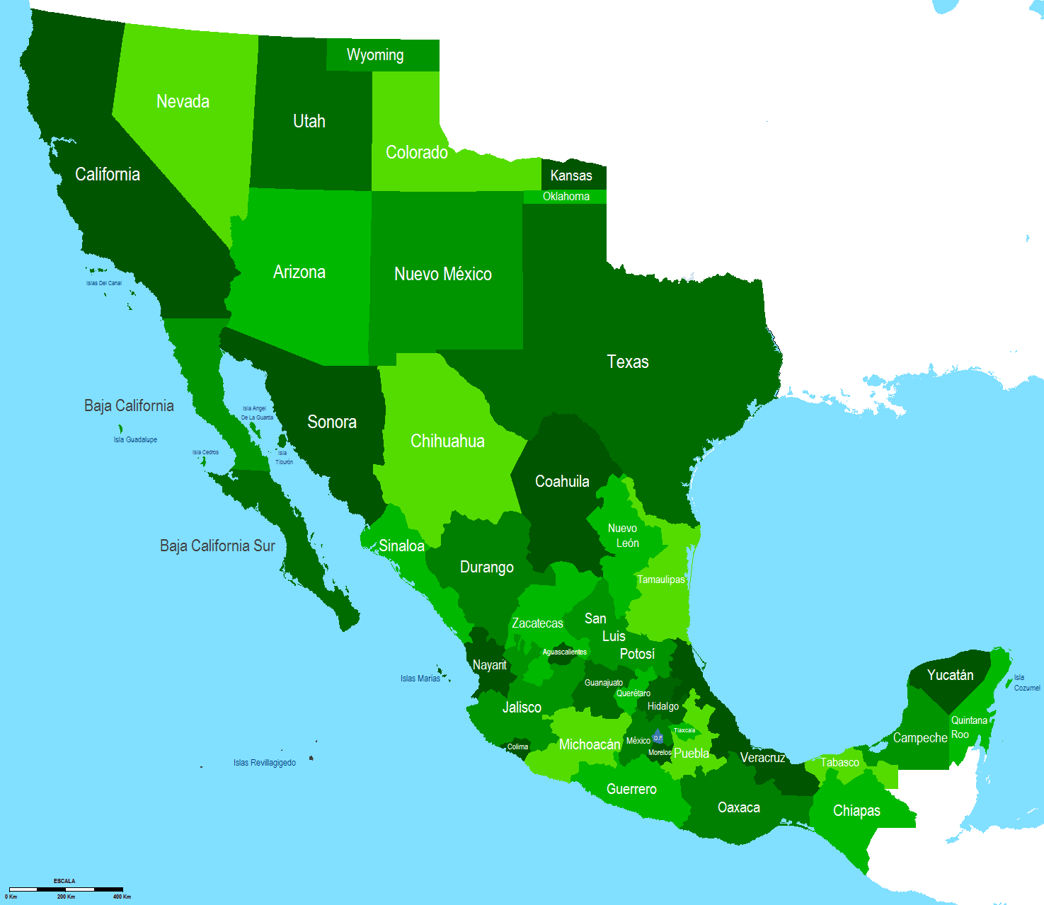 Mexico's 42 states